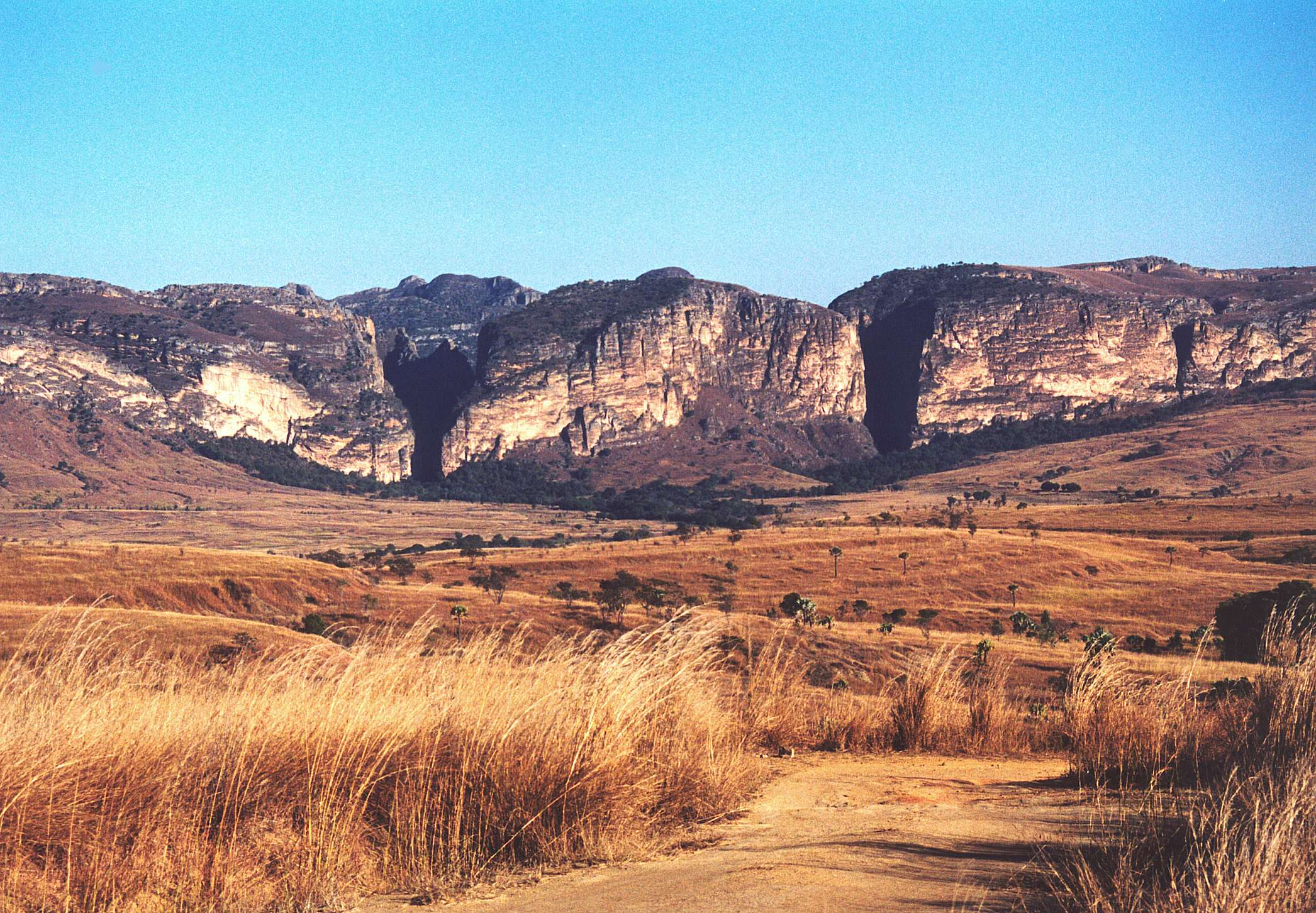 The "canyon of rats" and the "canyon of monkeys" in Isalo National Park, Madagascar